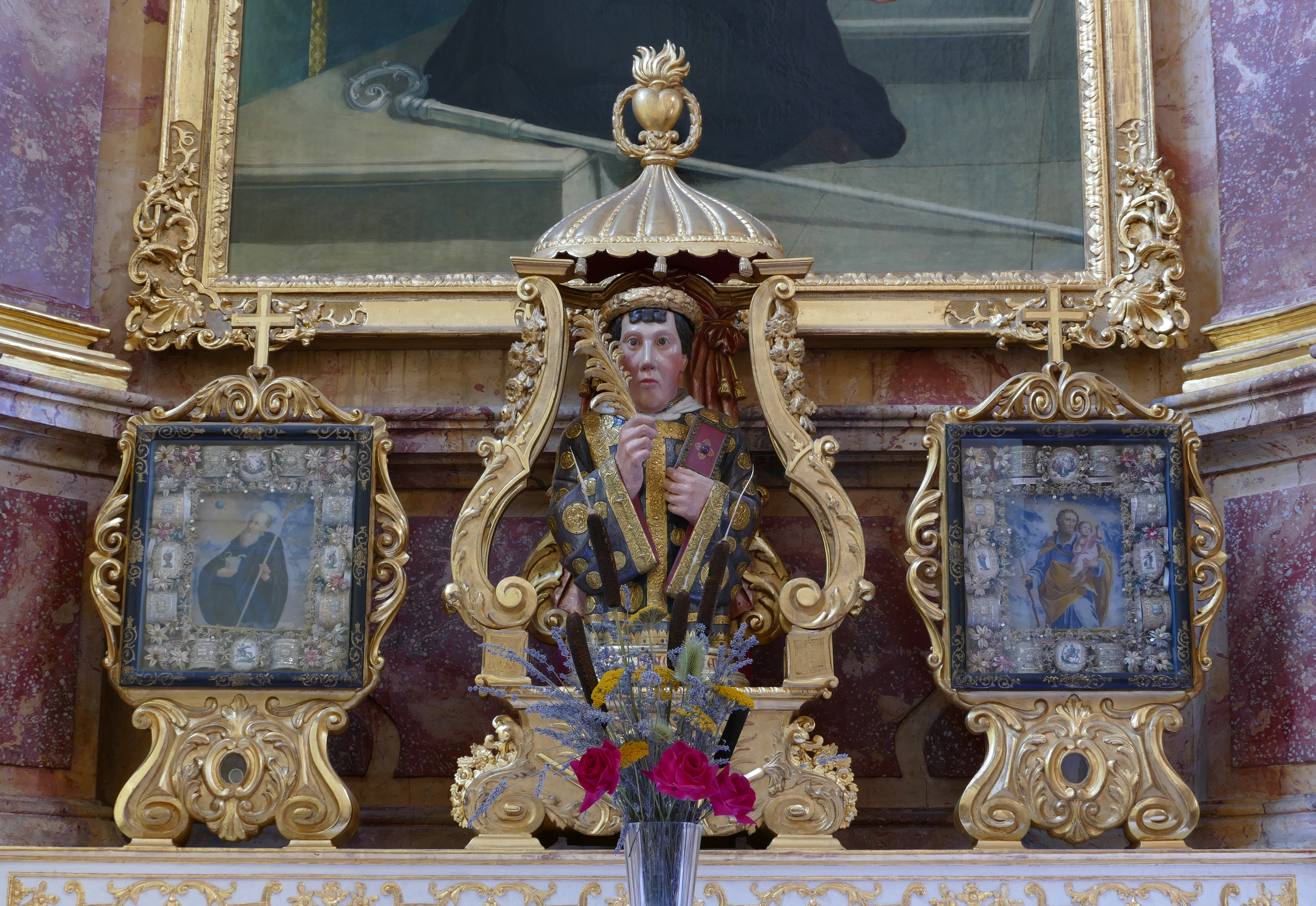 Alsace, Bas-Rhin, Altorf, Église abbatiale Saint-Cyriaque (PA00084581, IA67011108). Buste-reliquaire de Saint-Cyriaque (XIIIe-XIXe): This object is classé Monument Historique in the base Palissy, database of the French furniture patrimony of the French ministry of culture, under the references PM67000001 and IM67015773. Tableaux-reliquaires (XVIIIe-XIXe)